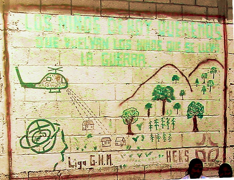 Pace wall drawing at Victoria 20 de Enero Ixcán bus station ,Guatemala